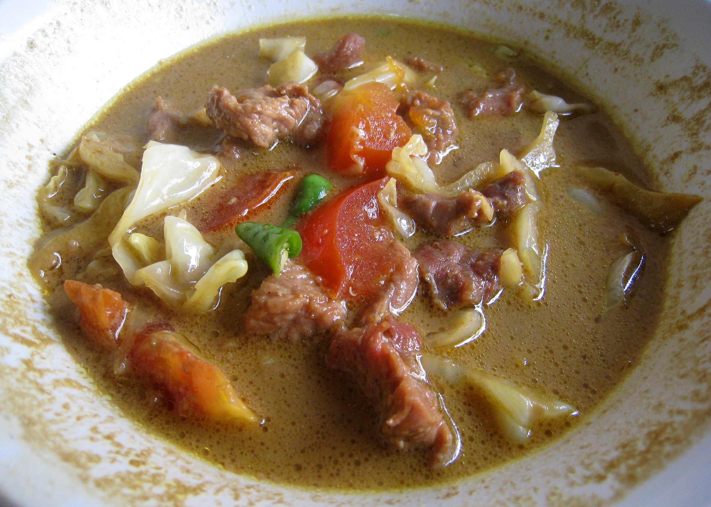 Tongseng, a Javanese spicy and rather sweet goat meat soup. Specialty of Solo (Surakarta), Central Java, Indonesia.